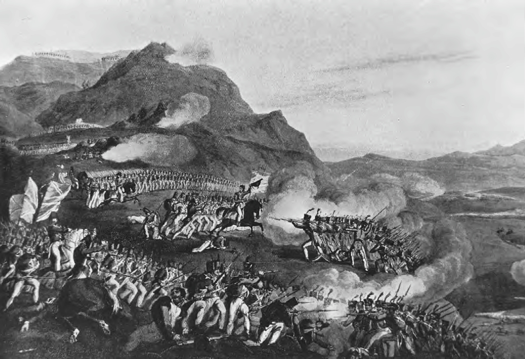 British infantry deployed in line on the ridge at Bussaco during the Peninsular War. Successive campaigns in the Iberian Peninsula led to a continuous drain on French manpower.